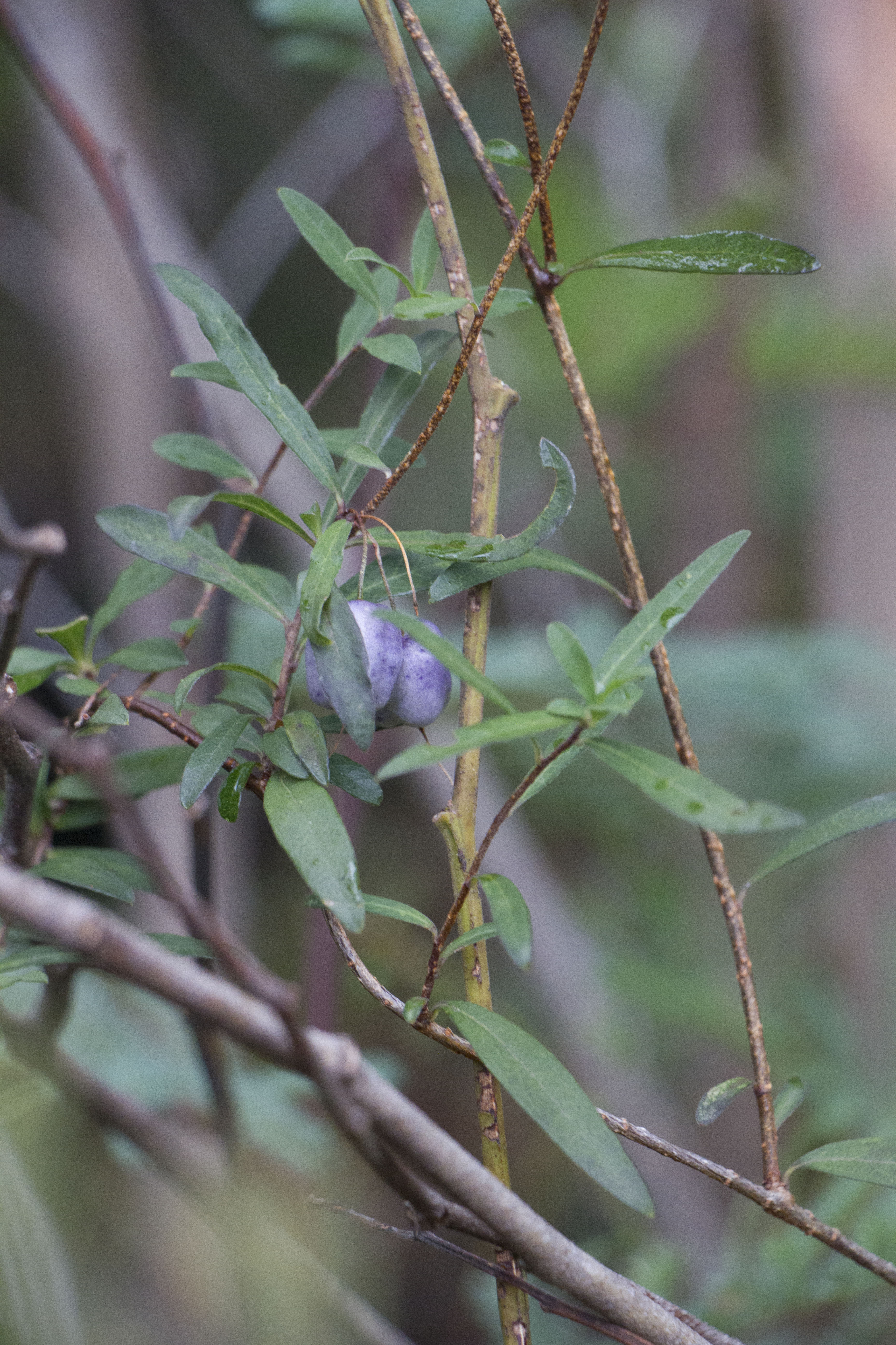 The vines of the Purple Apple-berry